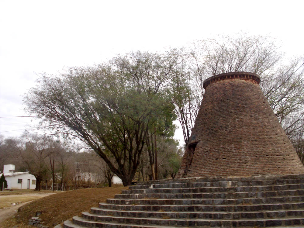 Historic Gave, in Bialet Massé, Argentina.